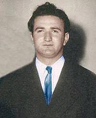 Habib Badei